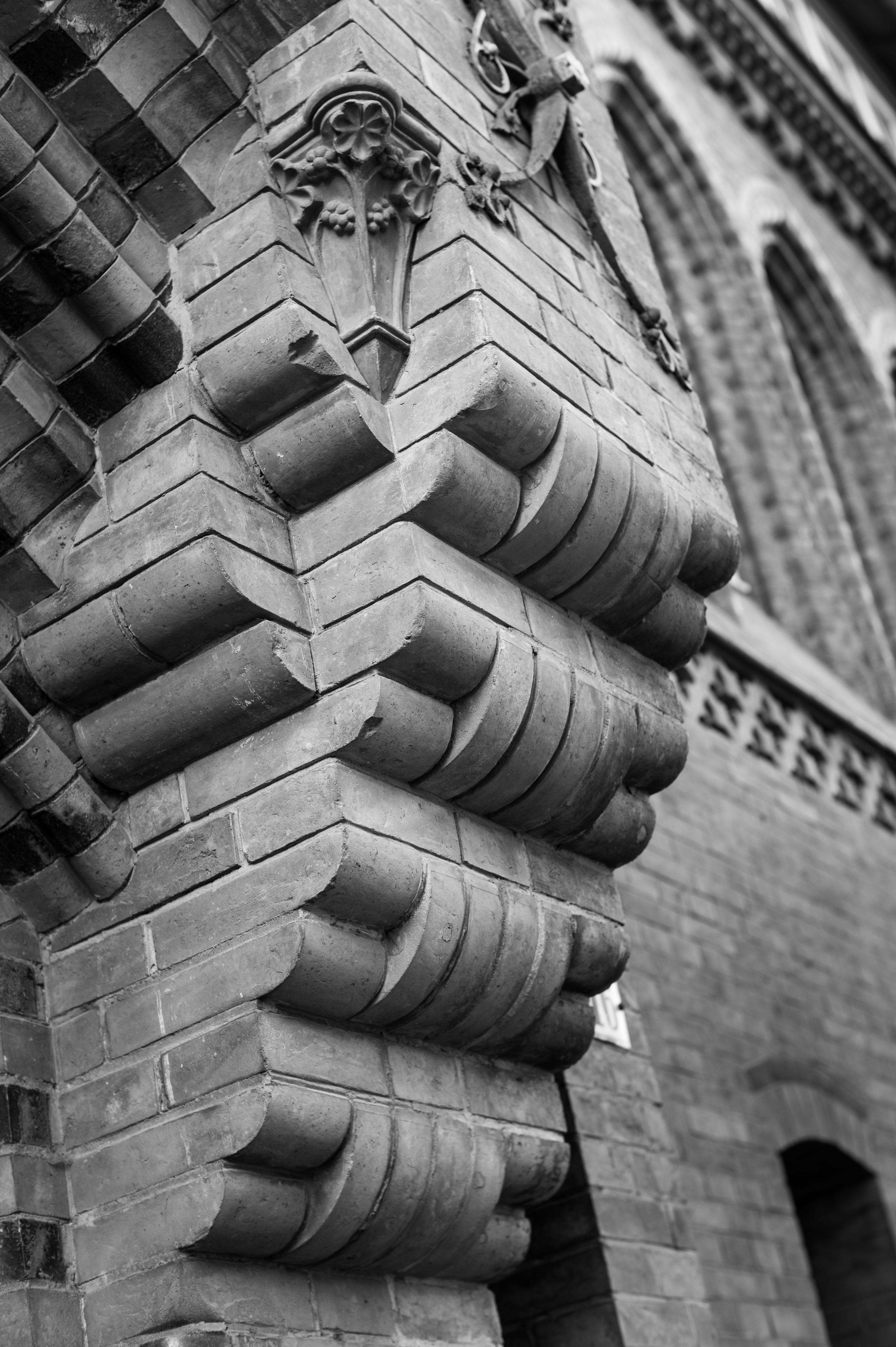 Special shaped bricks close to entrance of the gym building of Turnklubb Hannover. The building is located at Maschstrasse in Suedstadt quarter of Hannover, Germany.